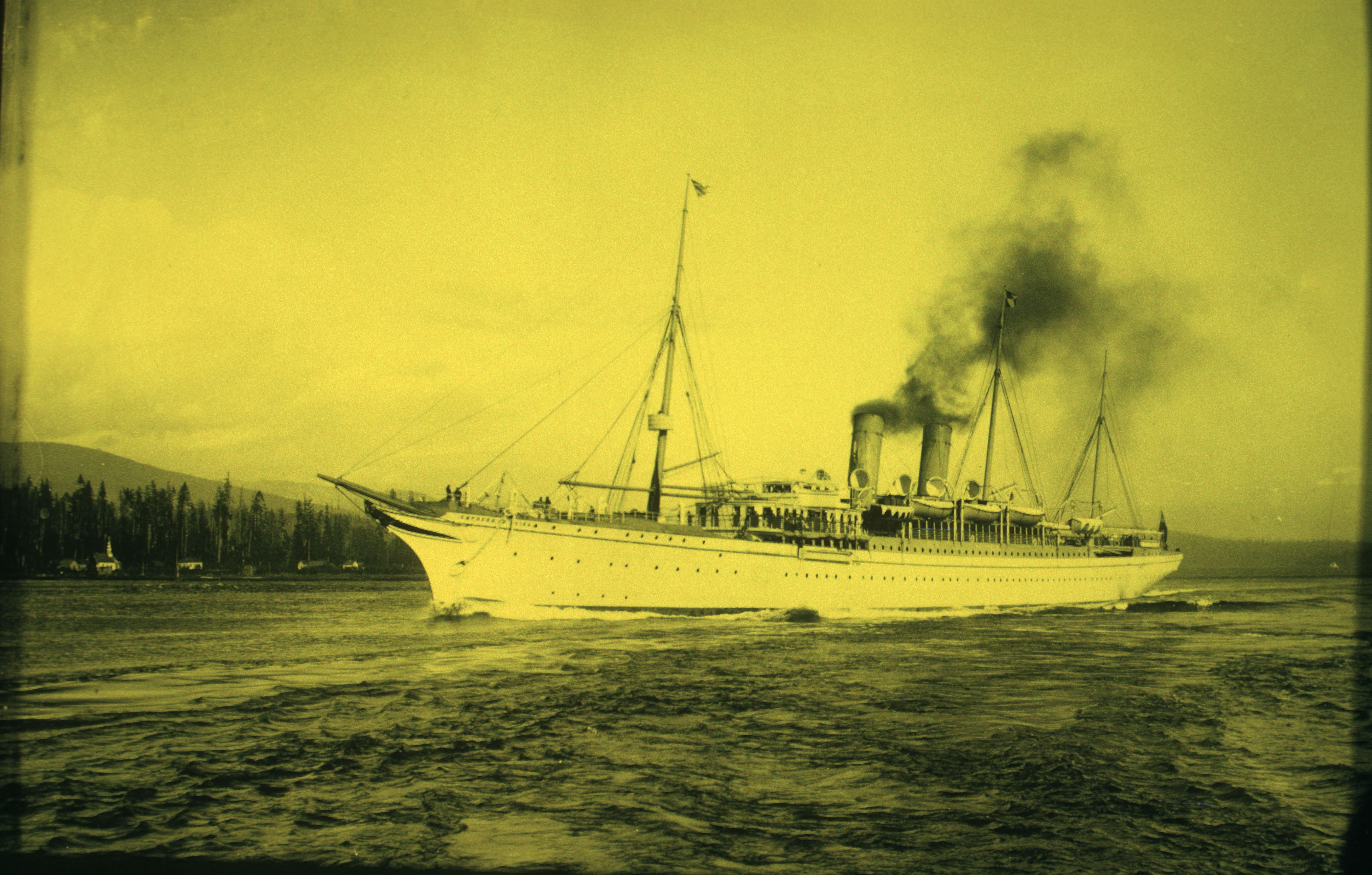 According to the Vancouver Archive this photo was taken in 1904 and reproduced in 1986 for the Vancouver Centennial Commission.